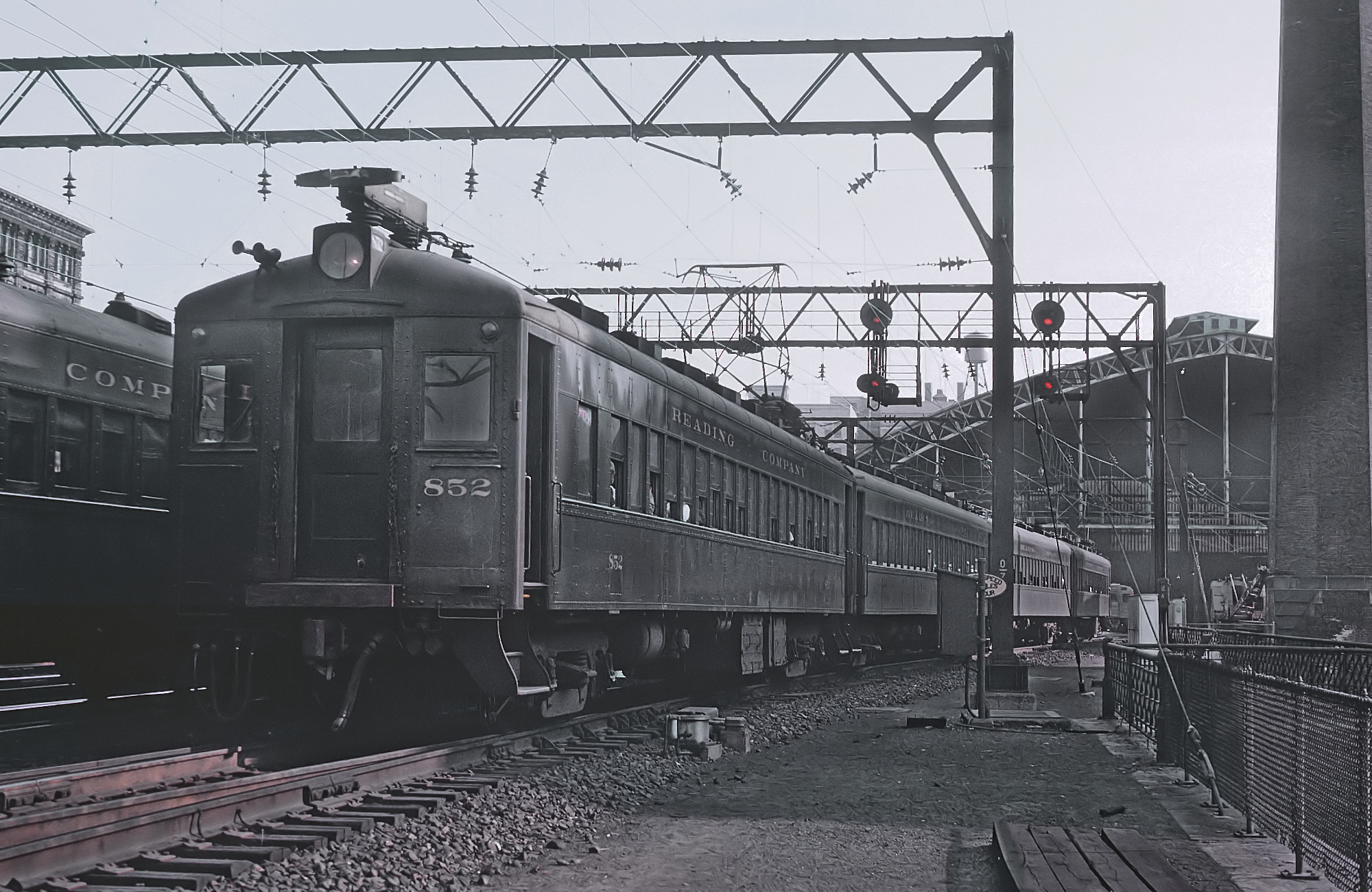 Roger Puta Photograph